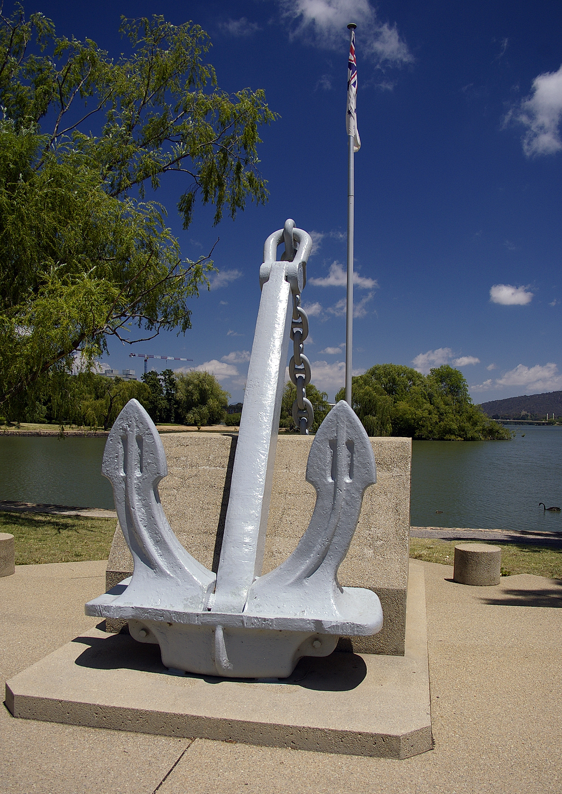 HMAS Canberra (D33) memorial next to Lake Burley Griffin in Canberra, Australian Capital Territory.